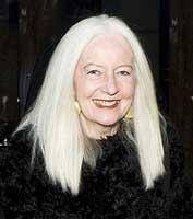 Australian art gallery owner Roslyn Oxley